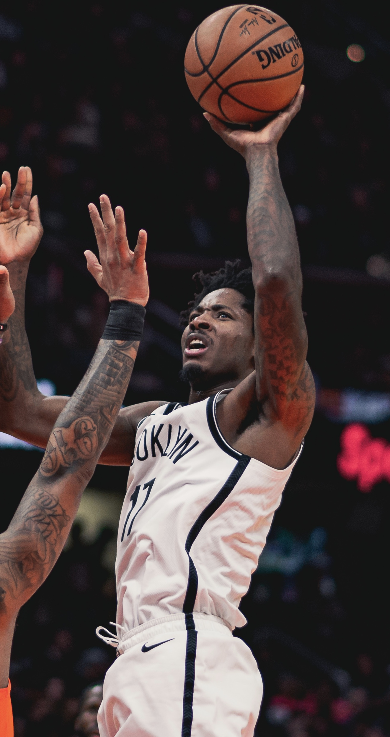 Ed Davis as a member of the Brooklyn Nets in February 2019